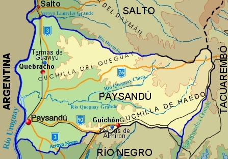 Map of Paysandu Department, Uruguay.